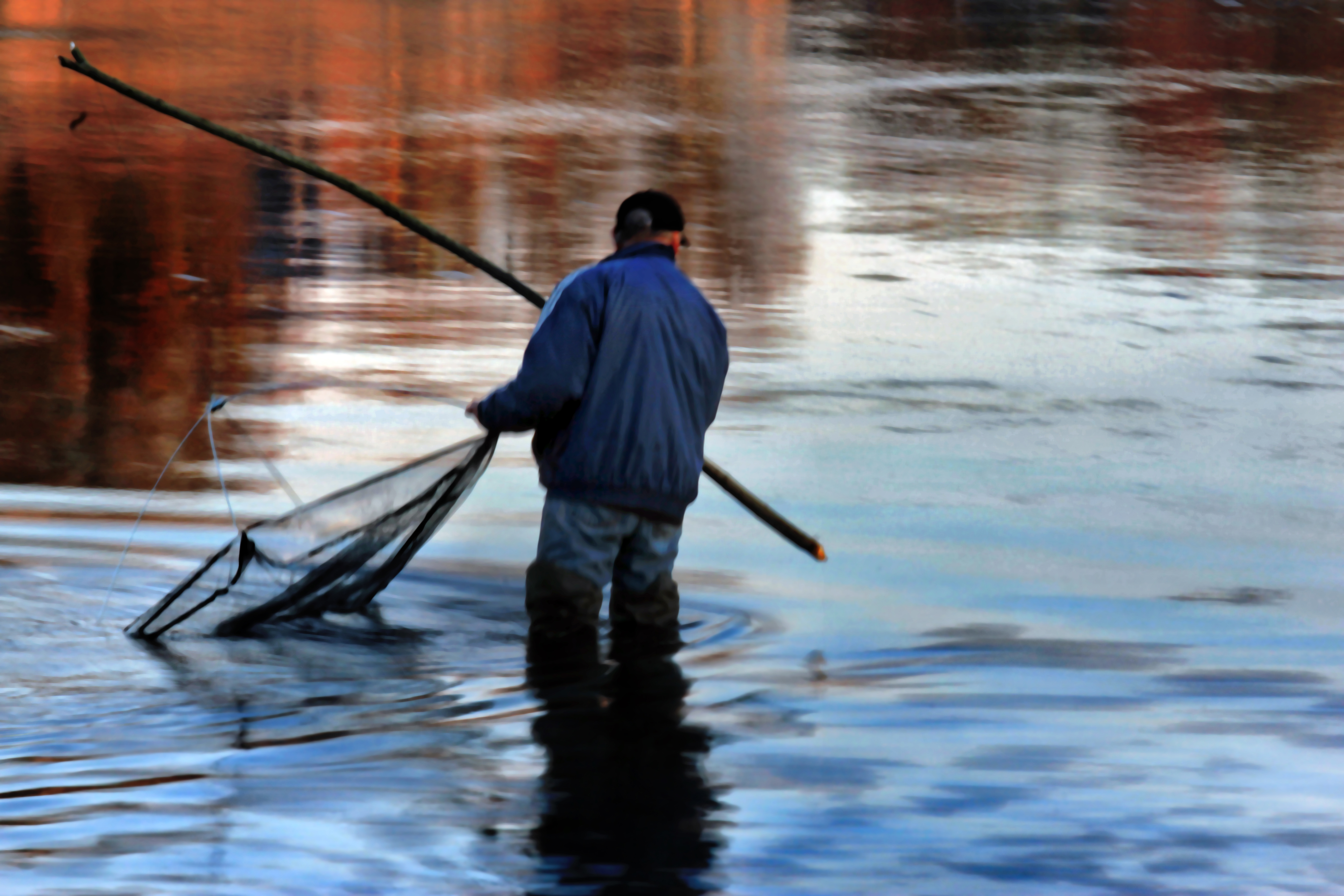 Fishing competition "Narva Salmon 2014"